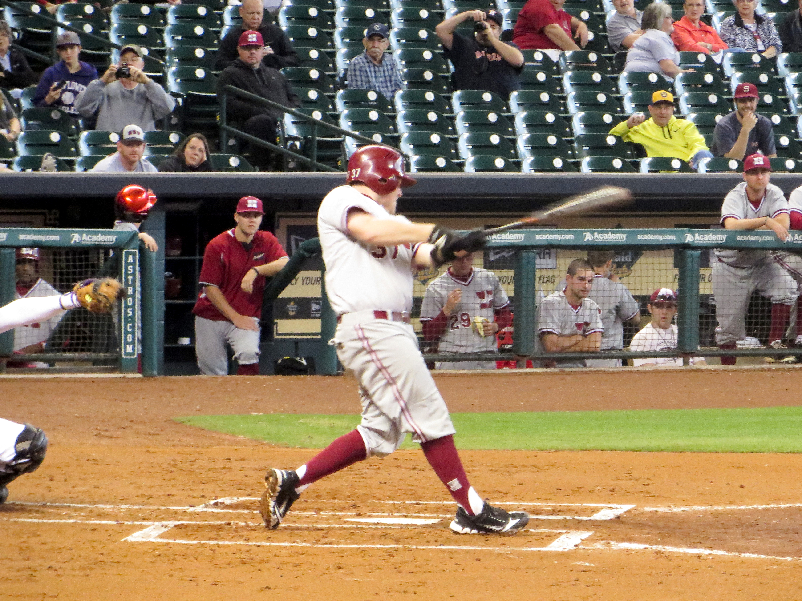 Henderson State University baseball catcher Andrew Reynolds swings at a pitch during the 2014 Houston Winter Invitational at Minute Maid Park.